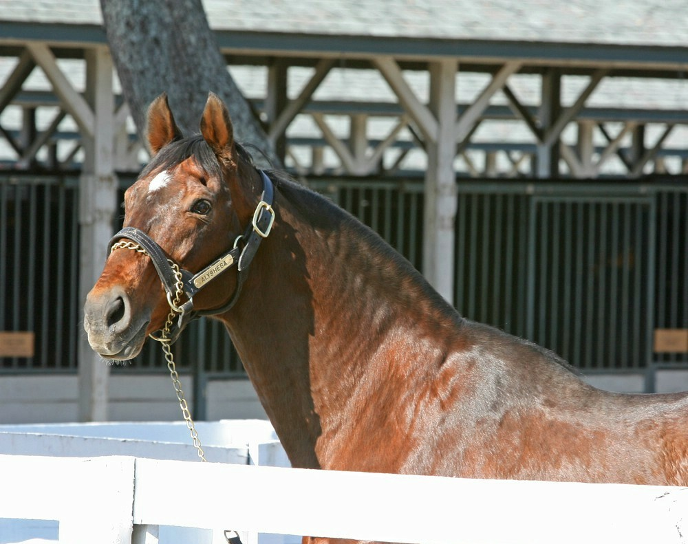 Alysheba at the Ky Horsepark on an extremely rare, warm day in November 2008 images by Heather Abounader